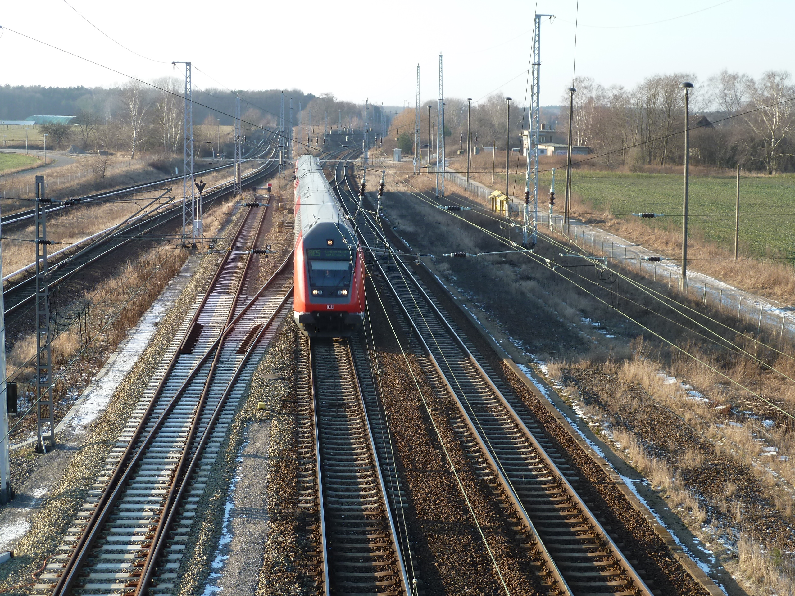 Schönfließ, railway station, view to the west